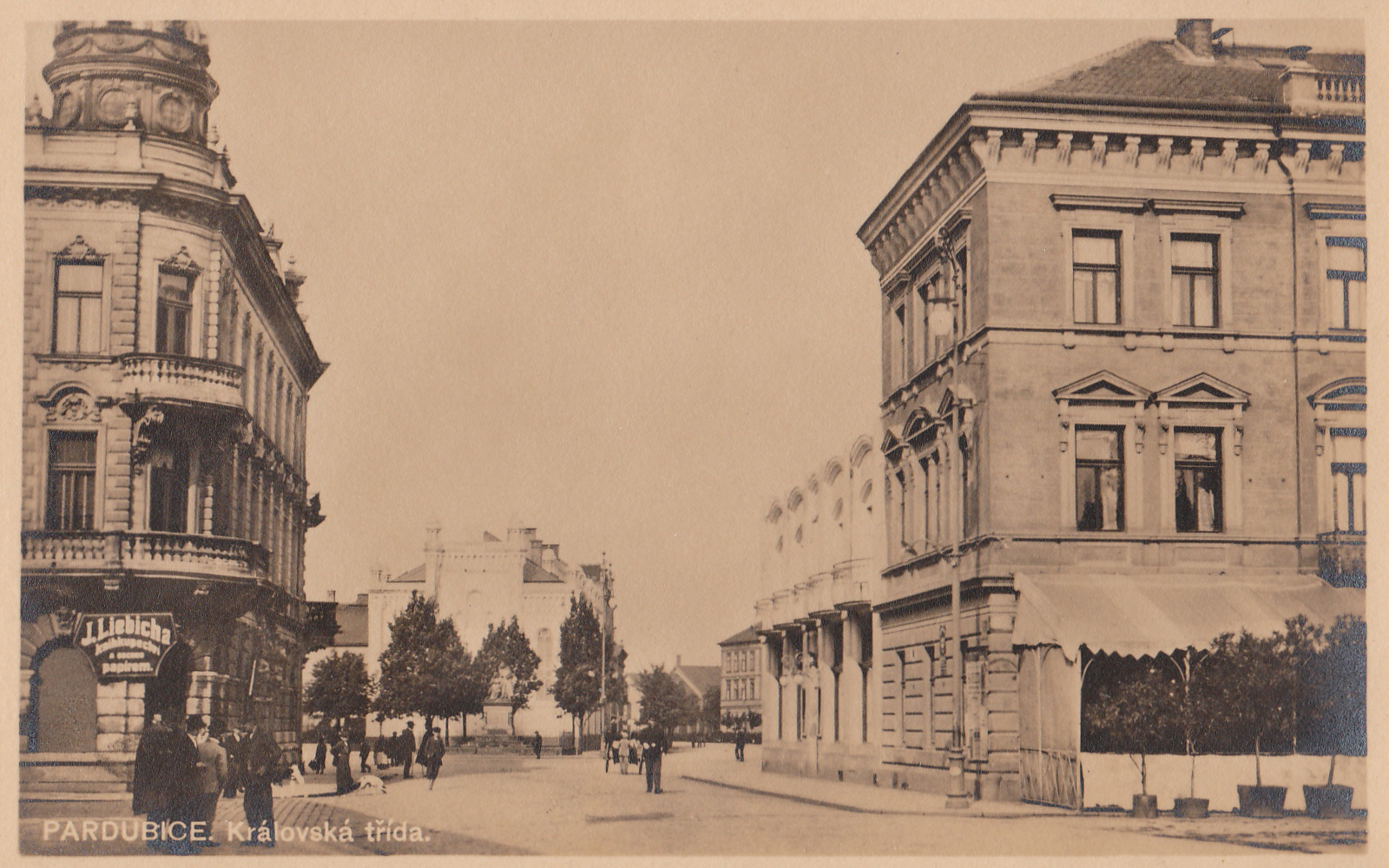 Pardubice. Královská avenue. (now Třída Míru, view facing west) Česky: Pardubice. Královská třída. (dnes Třída Míru, pohled k západu, vpravo hotel "Veselka", v pozadí synagoga, před ní pomník bratranců Veverkových)